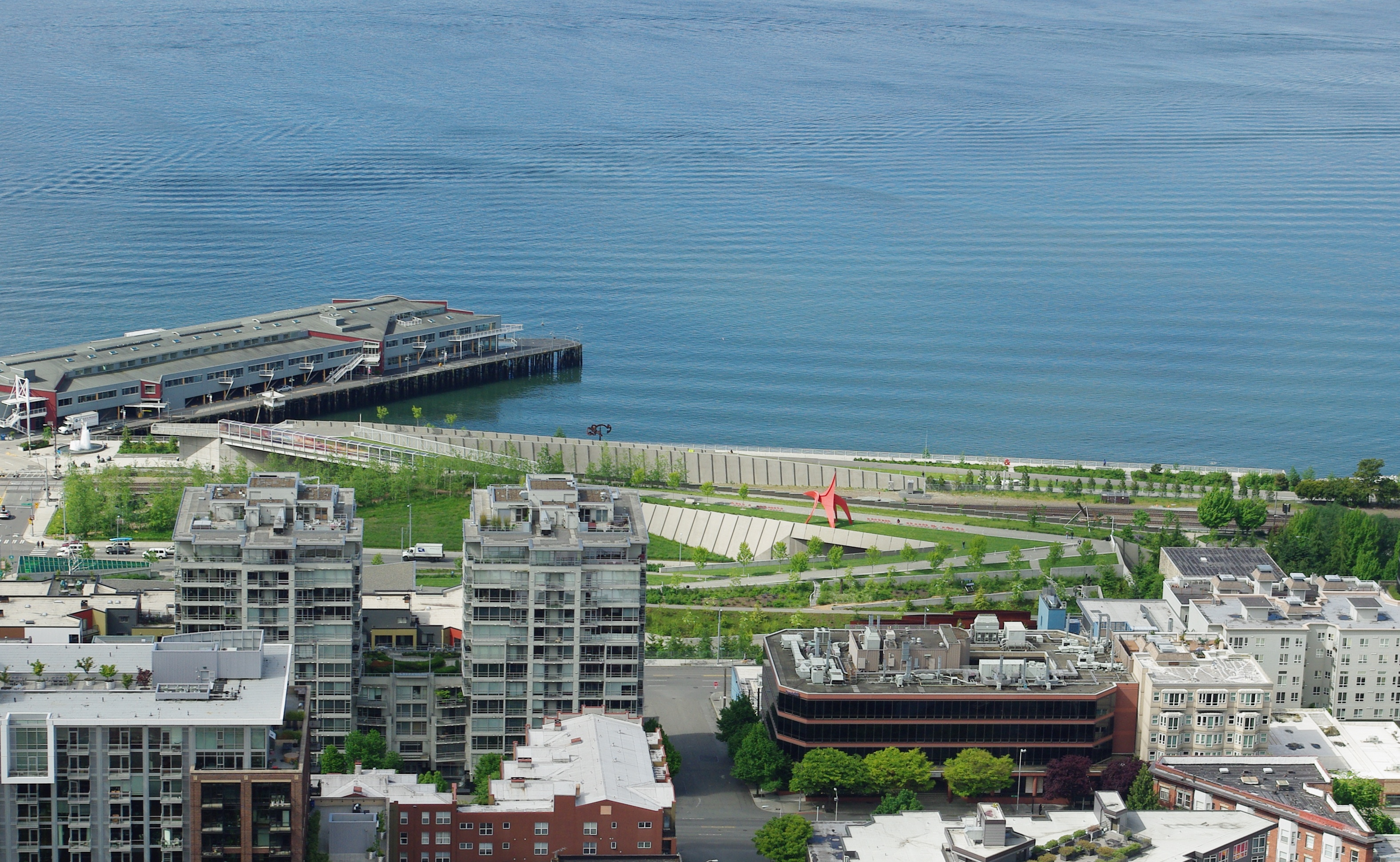 The Olympic Sculpture Park in Seattle from the east with Elliot Bay in the background.